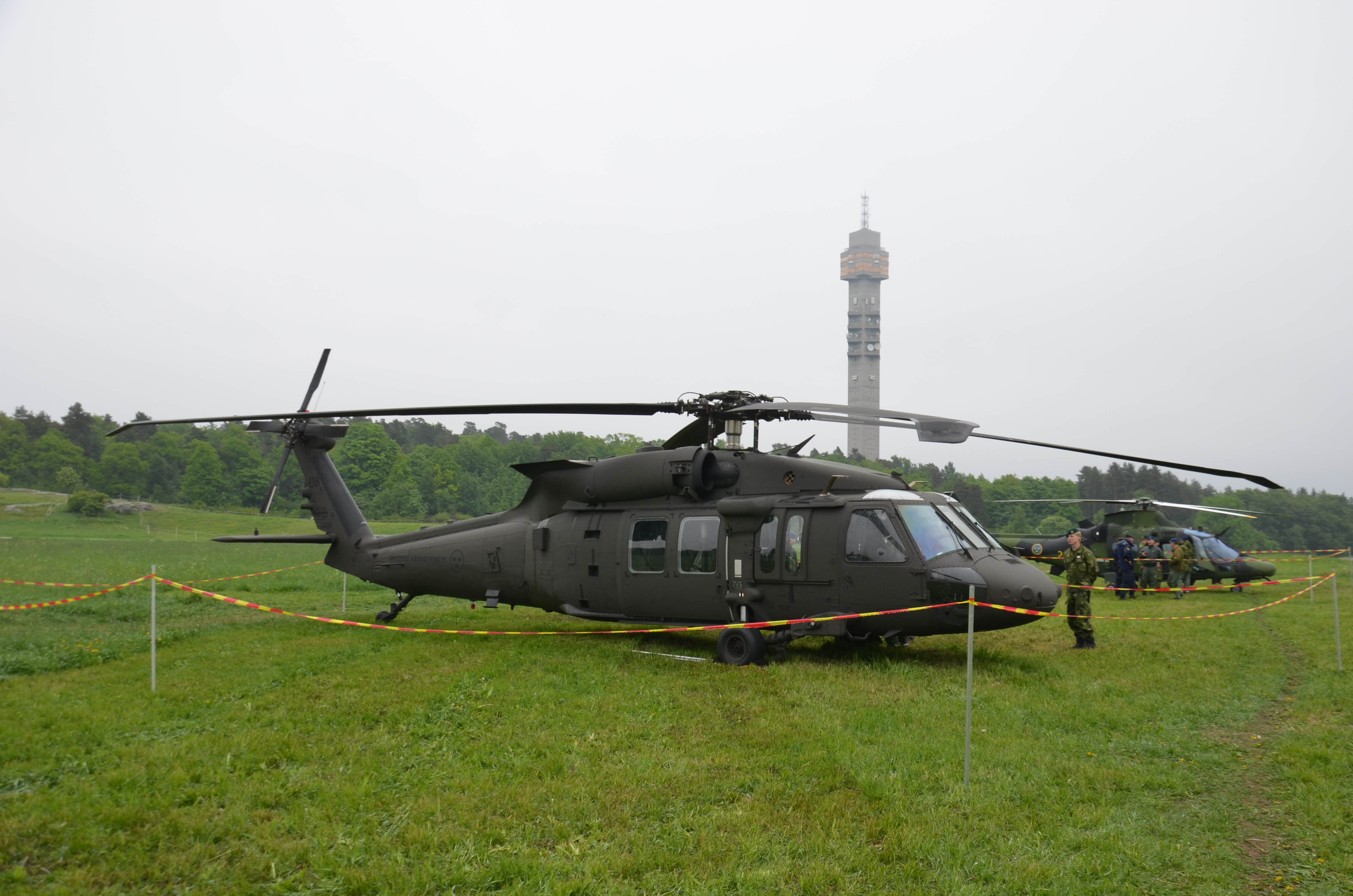 Swedish Army Helicopter 16, Black Hawk. Photo from Gärdet, Stockholm